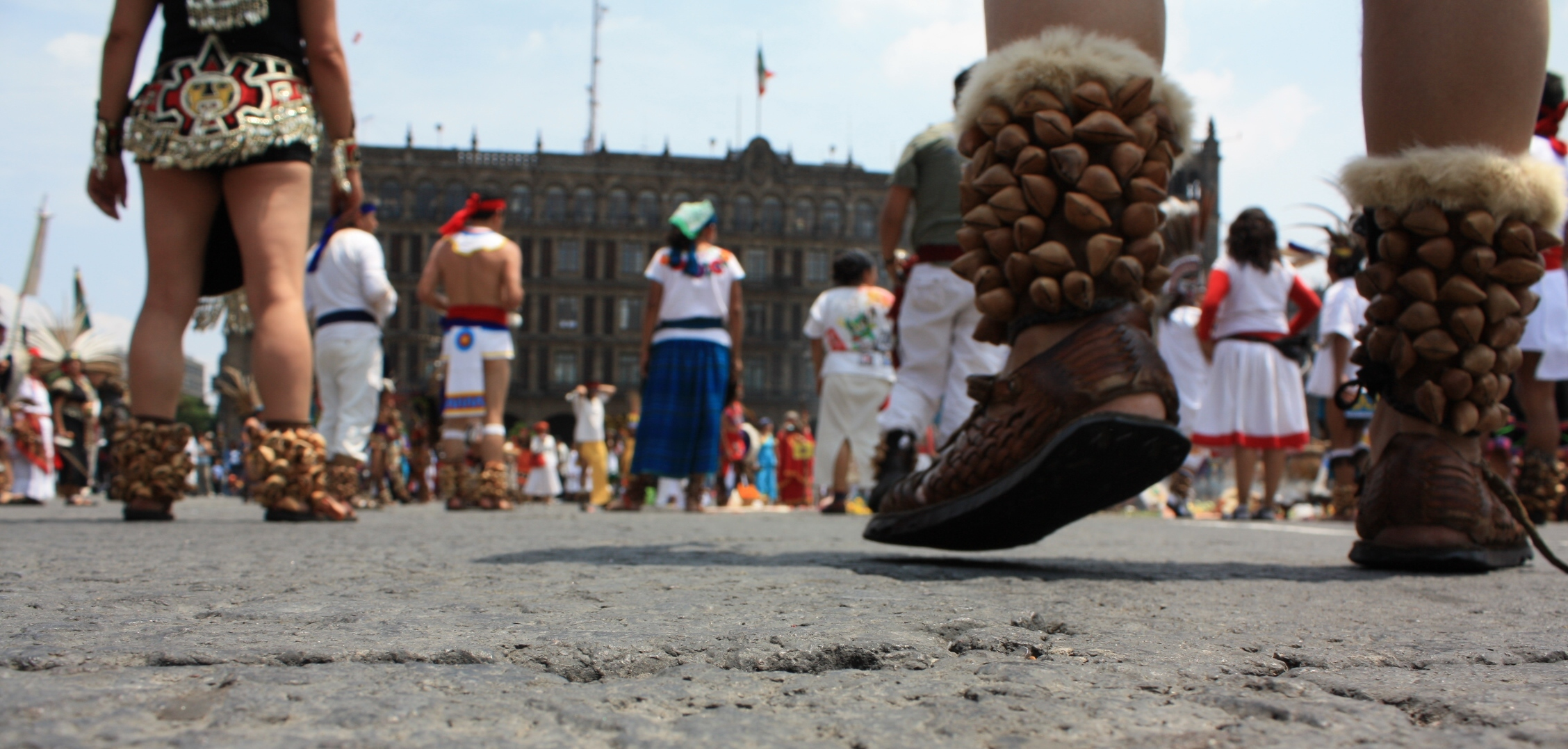 The performers popularly known as "Aztec Dancers" are a mainstay of Mexico City's historic downtown, specially in the areas around pre-Hispanic ruins such as Templo Mayor. Their dances usually incorporates rituals and ceremonies inspired by Aztec cosmogony.